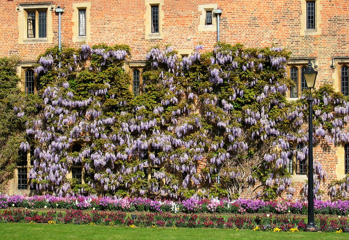 Wisteria sinensis trained to up and along an Elizabethan wall at Magdalene College, Cambridge, England